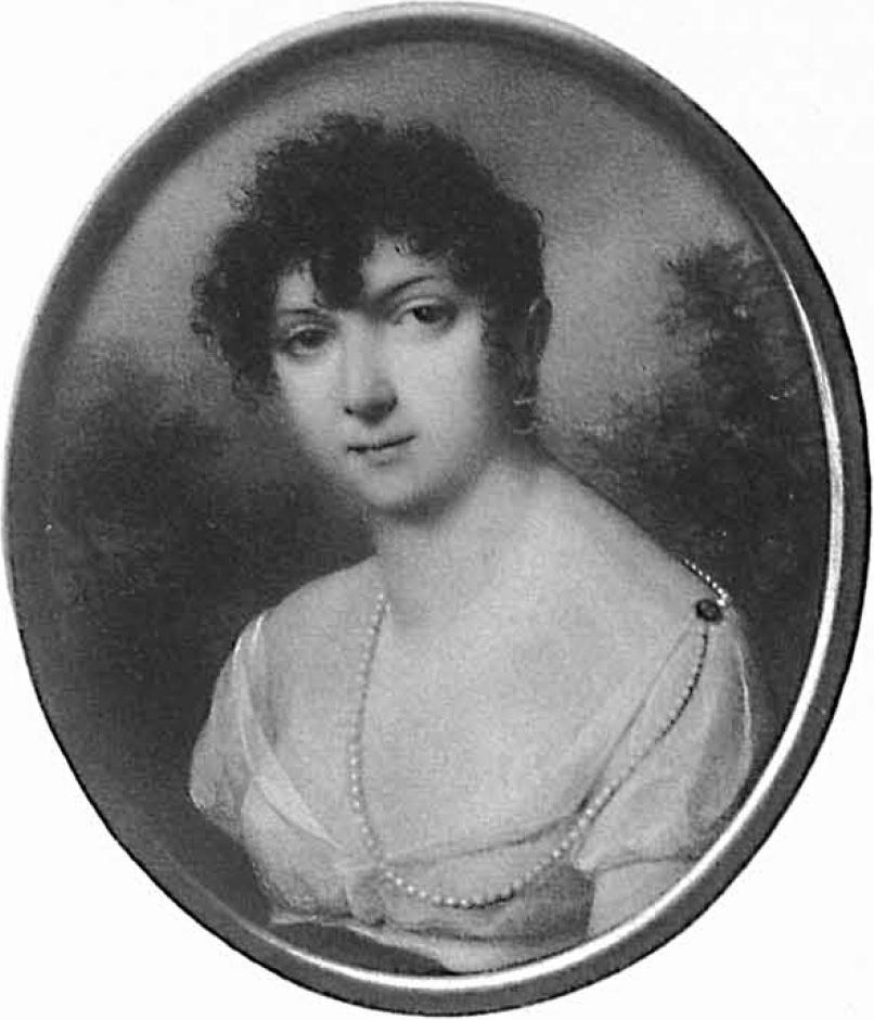 Olga Naryshkina (née. Potocki; 1802-1861)